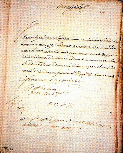 Envoice of Giovan Battista Magiotti, pharmacist in Montevarchi, asking to be refunded by Montevarchi Town Hall for medicaments distributed to people during 1631 plague